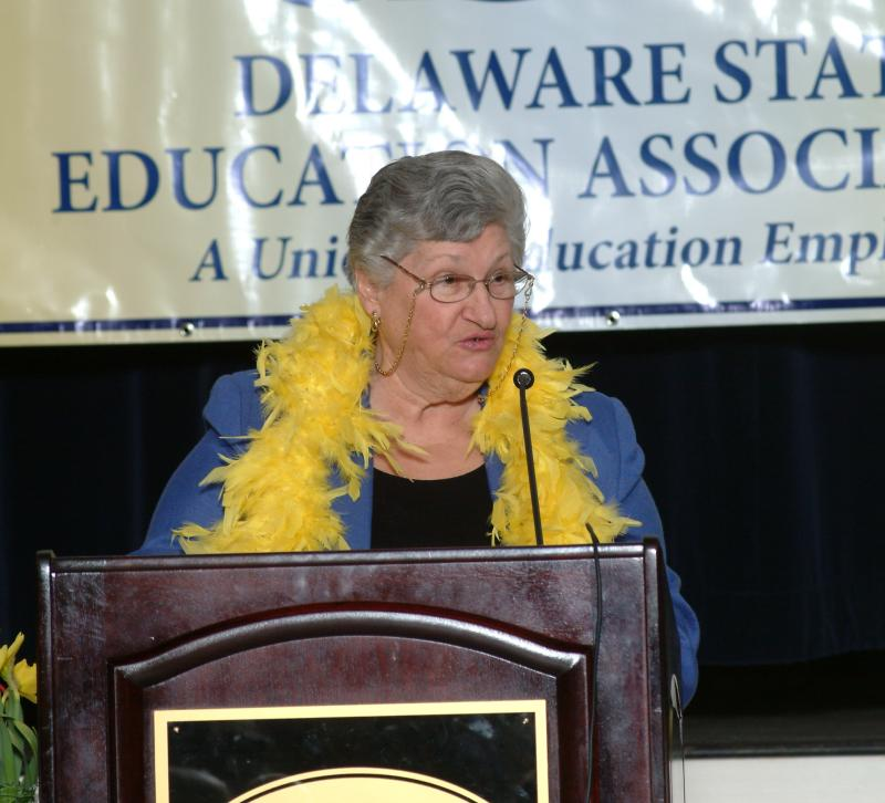 Governor Ruth Ann Minner addresses the 2008 Delaware State Education Association annual assembly.